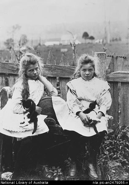 Photo of Edith and Pearl Corkhill in 1894. The photo was taken at Tilba Tilba by the girls' father, William Henry Corkhill.